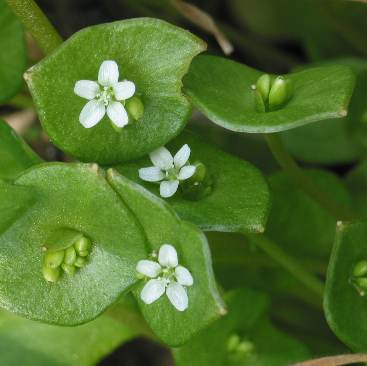 Miner's lettuce (Claytonia perfoliata), Buechelsberg near Darmstadt-Eberstadt, Germany